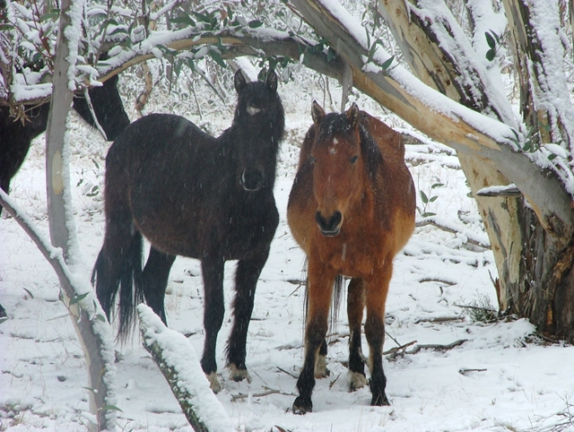 Wild Brumbies at Snowy Wilderness retreat in Jindabyne NSW Australia.